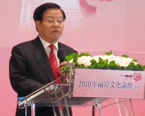 Cai Wu, Ministry of Culture of the People's Republic of China.